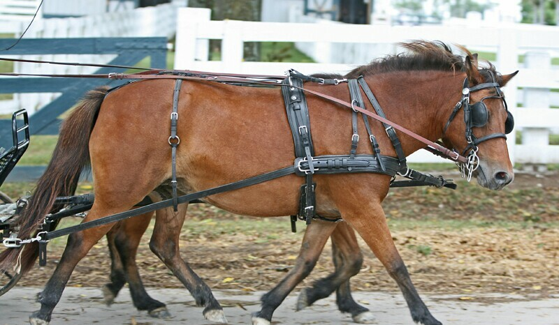 Image By HEather Abounader